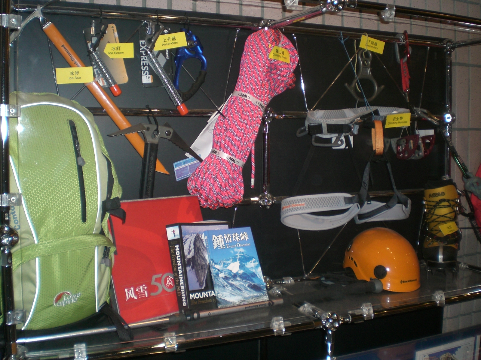 尖沙咀香港太空館室內展覽